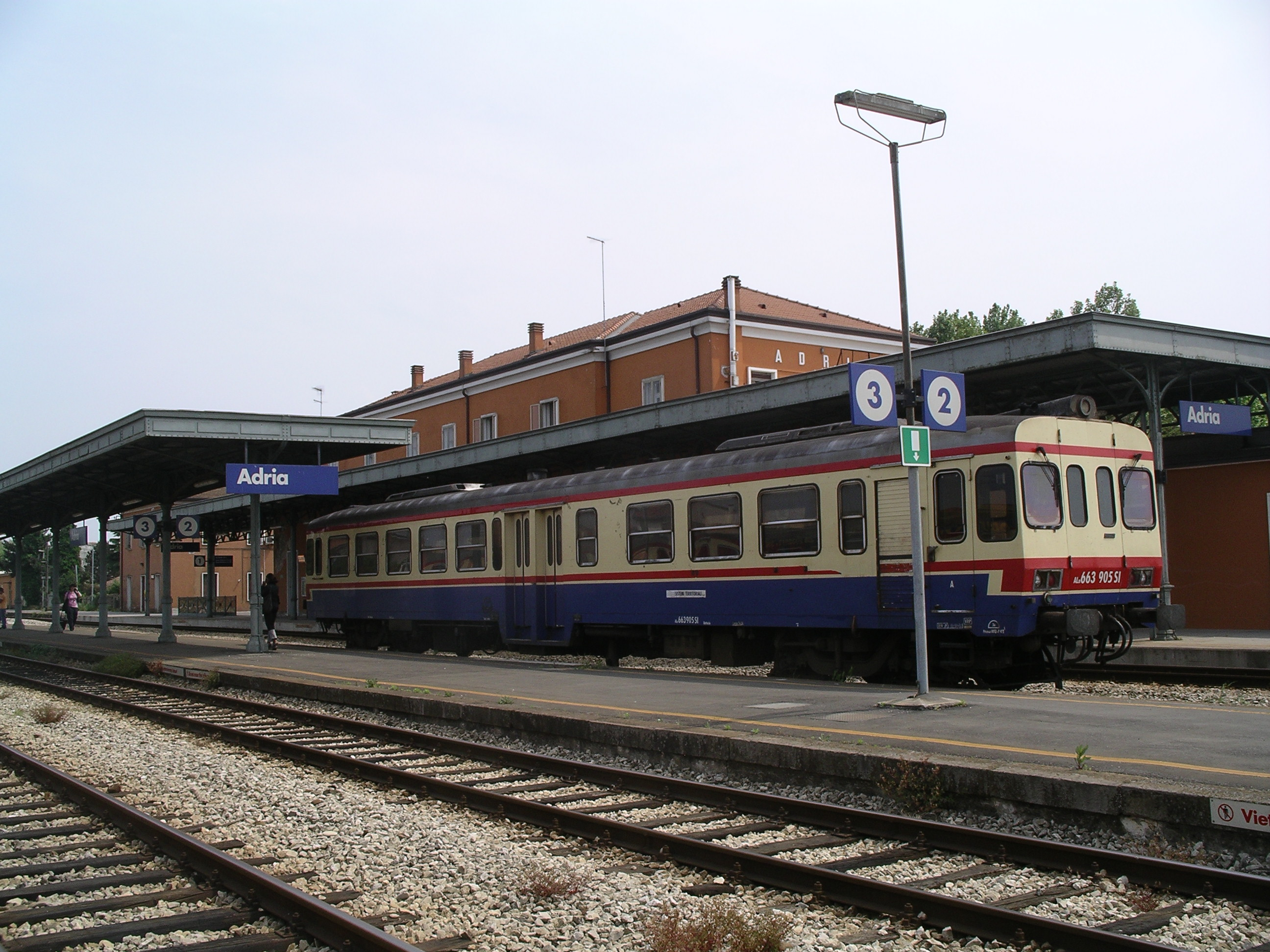 Adria railway station in Veneto, Italy